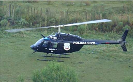 Police helicopter – Santa Catarina State - Brazil